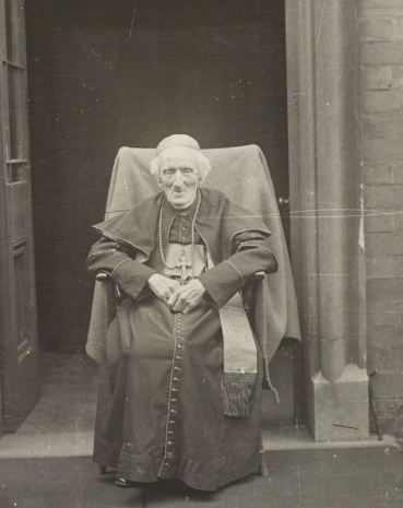 Taken from an album entitled ‘Oratory Photographs’ by A. H. Pollen.